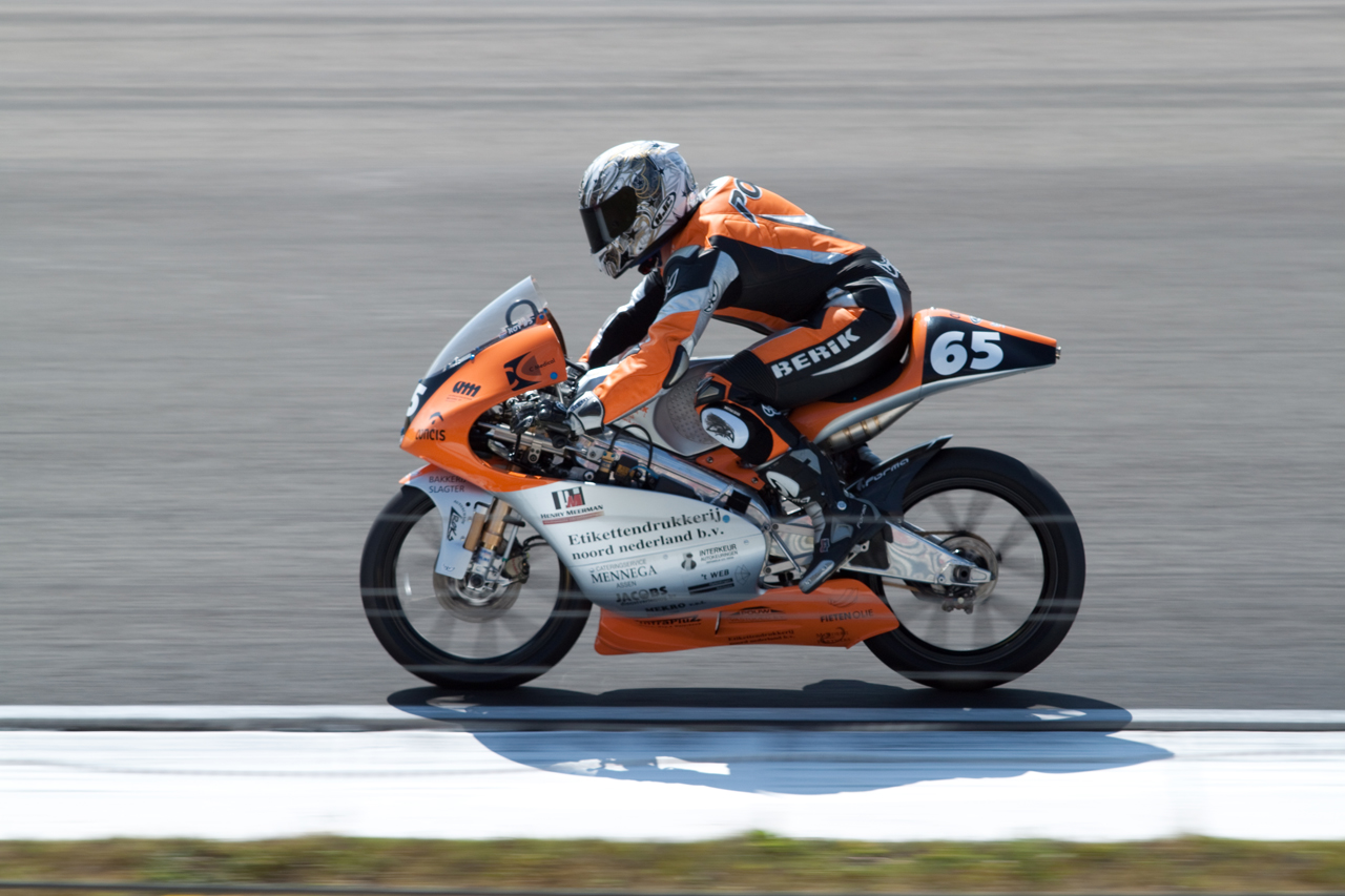 2010 Dutch TT – 125cc – #65 Roy Pouw – Aprilia – Team Holland Mototechnic